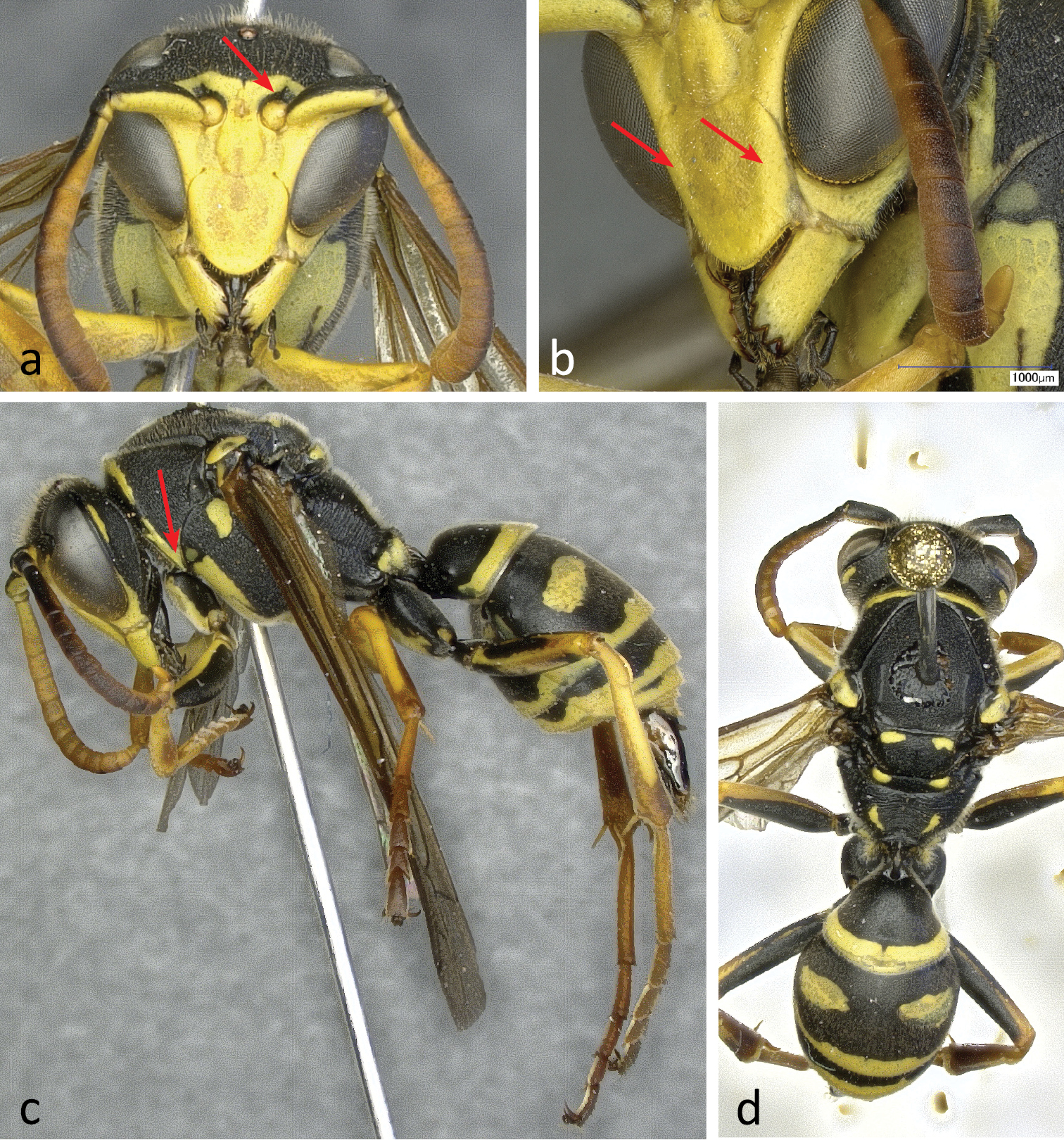 male Polistes helveticus a: frontal view of head b: anterolateral view of lower face c: lateral view of body d: dorsal view of body red arrows: isolated black areas bordering the torulus (a), the very faint lateral ridges of clypeus (b), the ventrolateral angle of the pronotum (c).